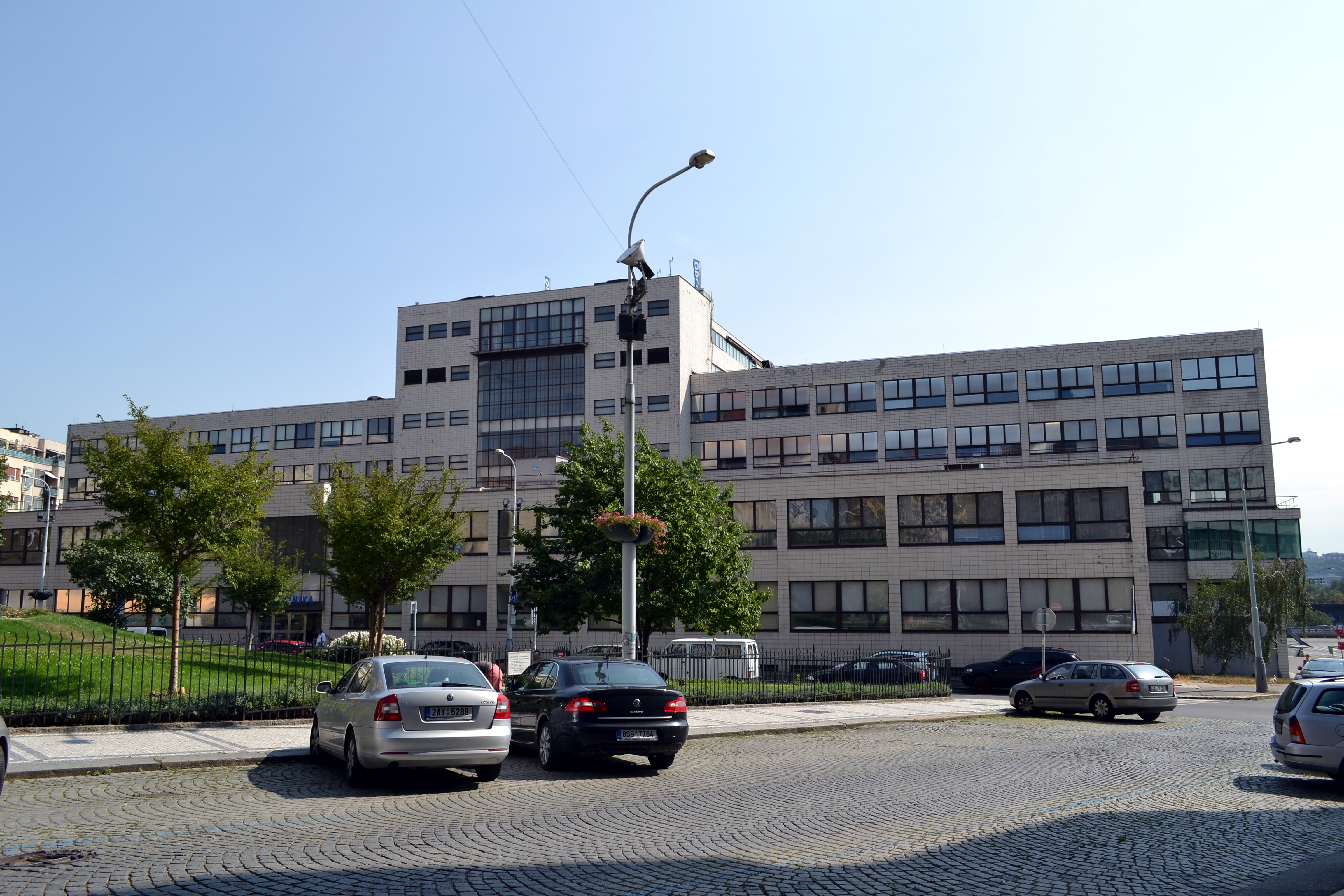 Building of the former company "Elektrické podniky" in Holešovice, Prague 7, Czech Republic. View from Strossmayerovo náměstí.